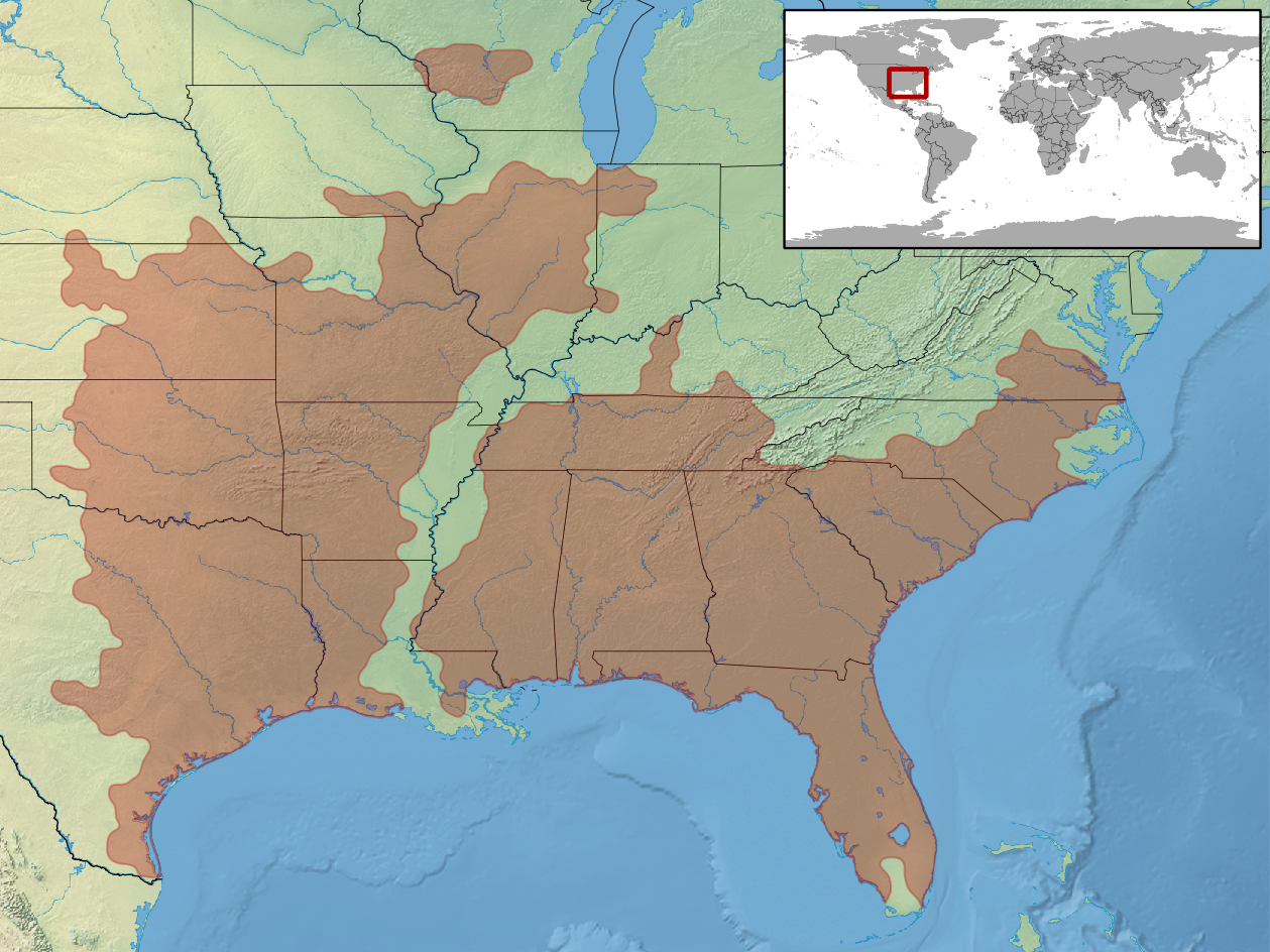 geographic distribution of Ophisaurus attenuatus (Native: United States)